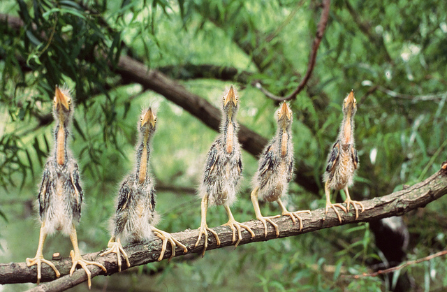 Photo: Roy W. Lowe, USFWS Pacific Region